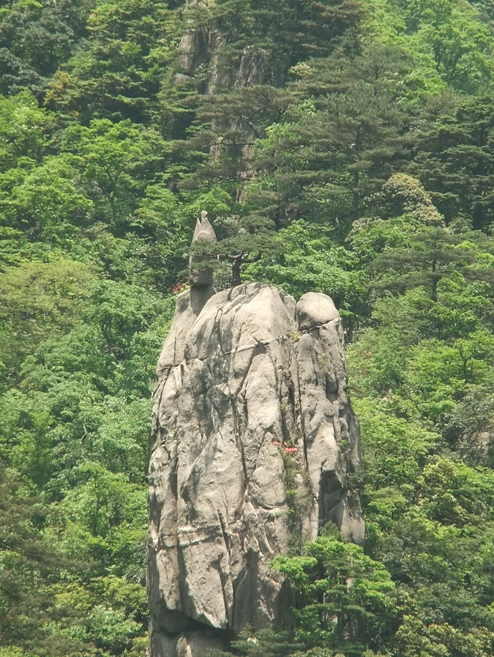 远望仙人指路 - Immortal Pointing the Way - 2010.05